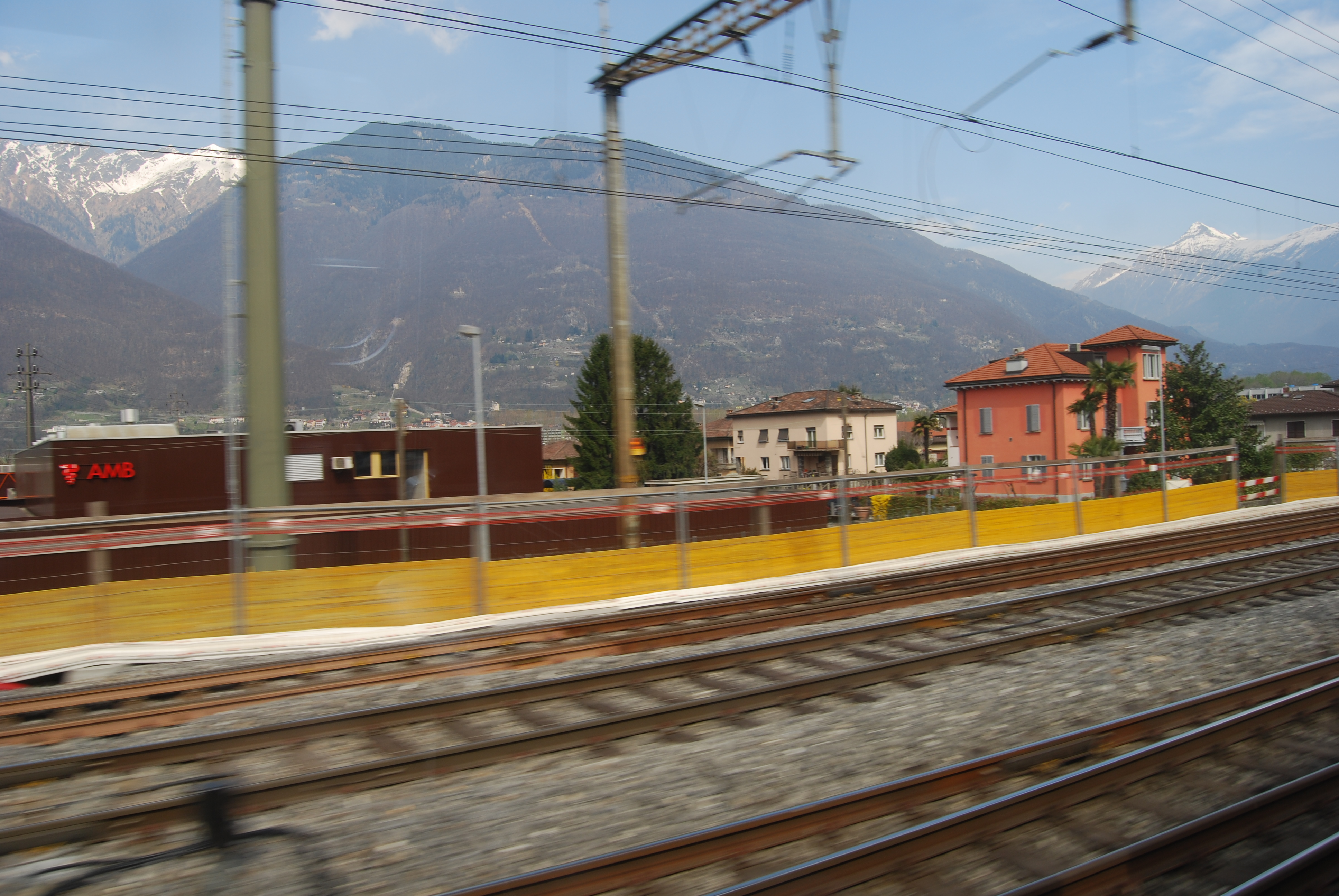 Giubiasco, canton of Ticino, SwitzerlandEsperanto: Giubiasco, Kantono Tiĉino, Svislando